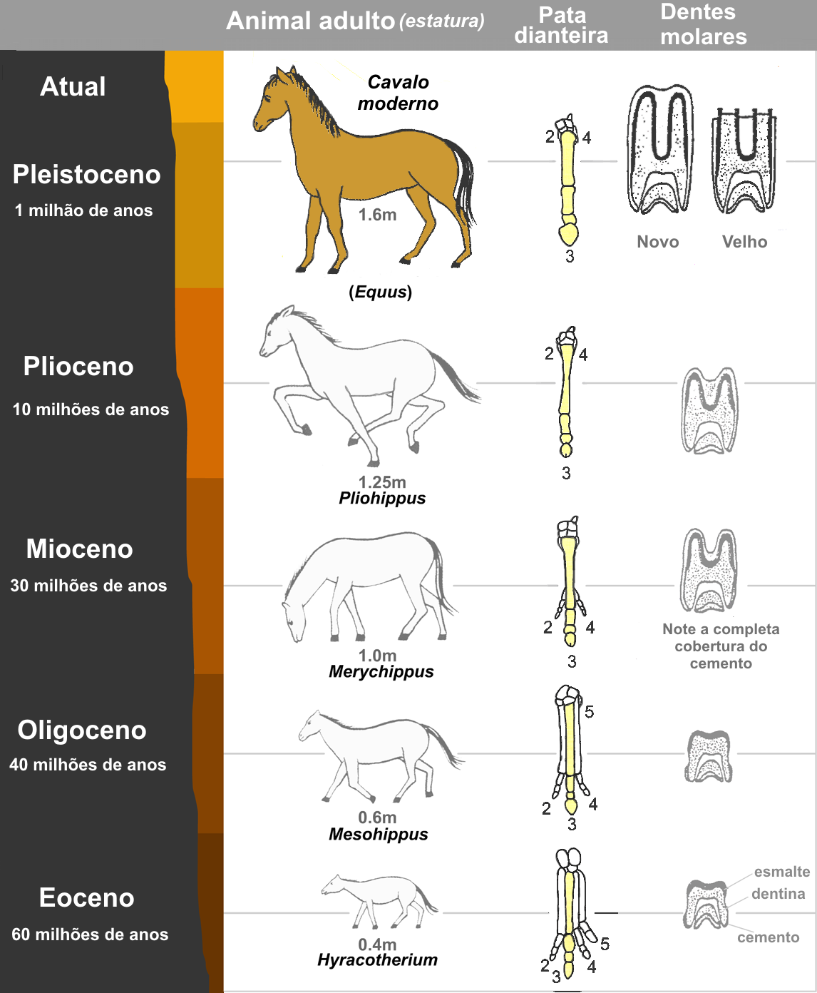 I don't do art for a living, neither for personal nor professional propaganda. I don't make any drawings for money. Thanks.